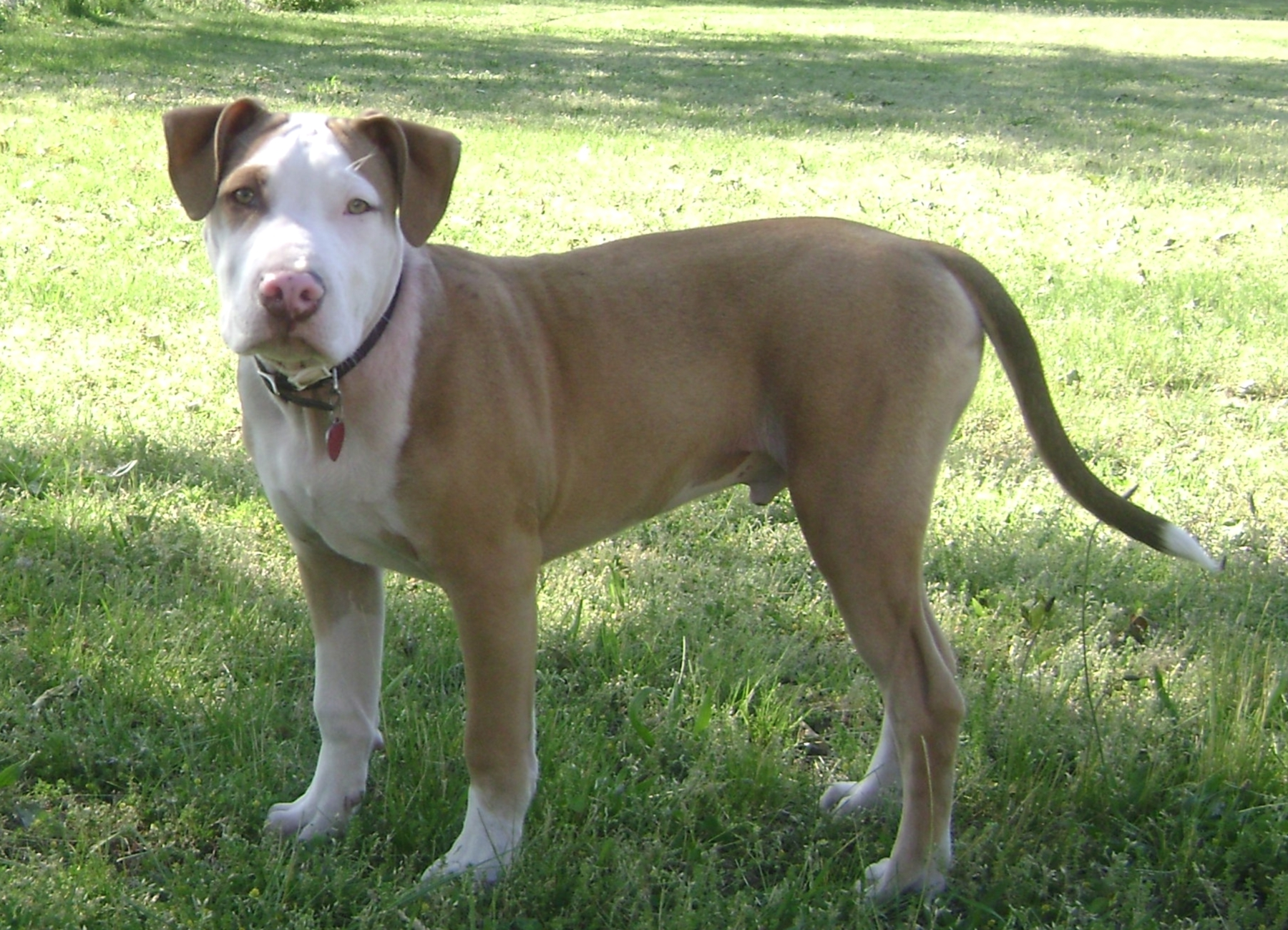 An American Pit Bull Terrier at 5 months.